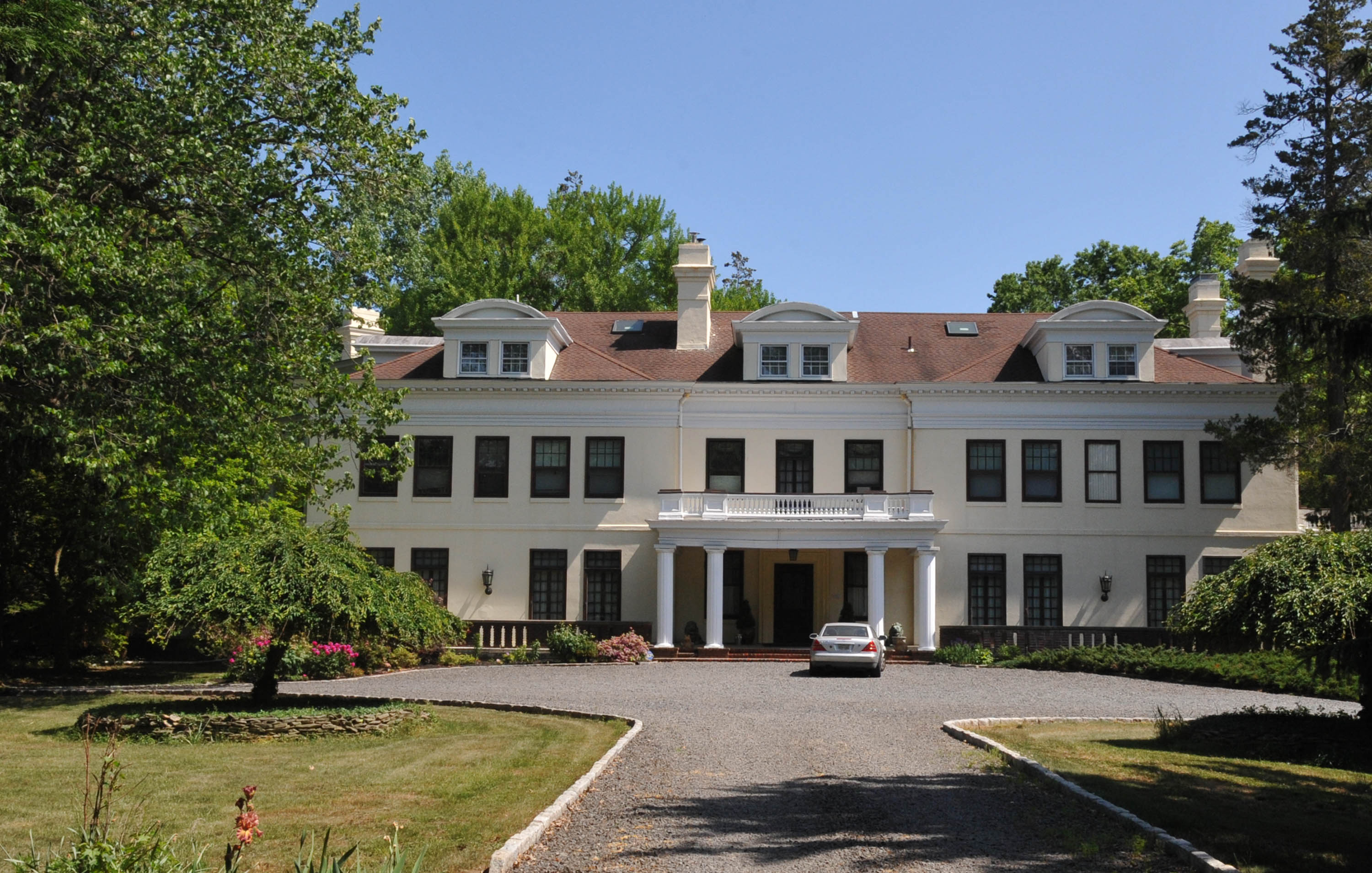 BUILT IN 1914 FOR NEW YORK FINANCIER HENRY A. CAESAR WHO WISHED TO HAVE HOMES WITHIN COMMUNICATING DISTANCE OF NEW YORK CITY